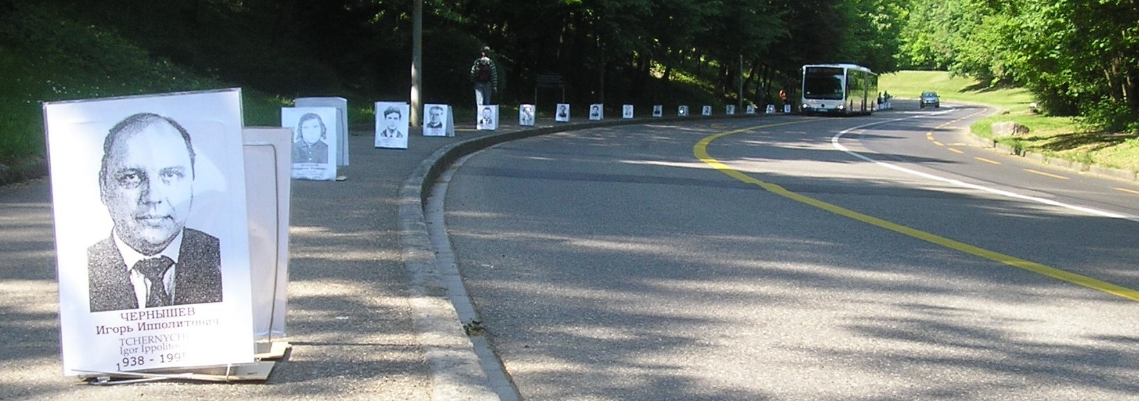 Demonstration on Chernobyl Day near WHO in Geneva to ask for the amendement of the WHO-IAEA agreement. Pictures of liquidators